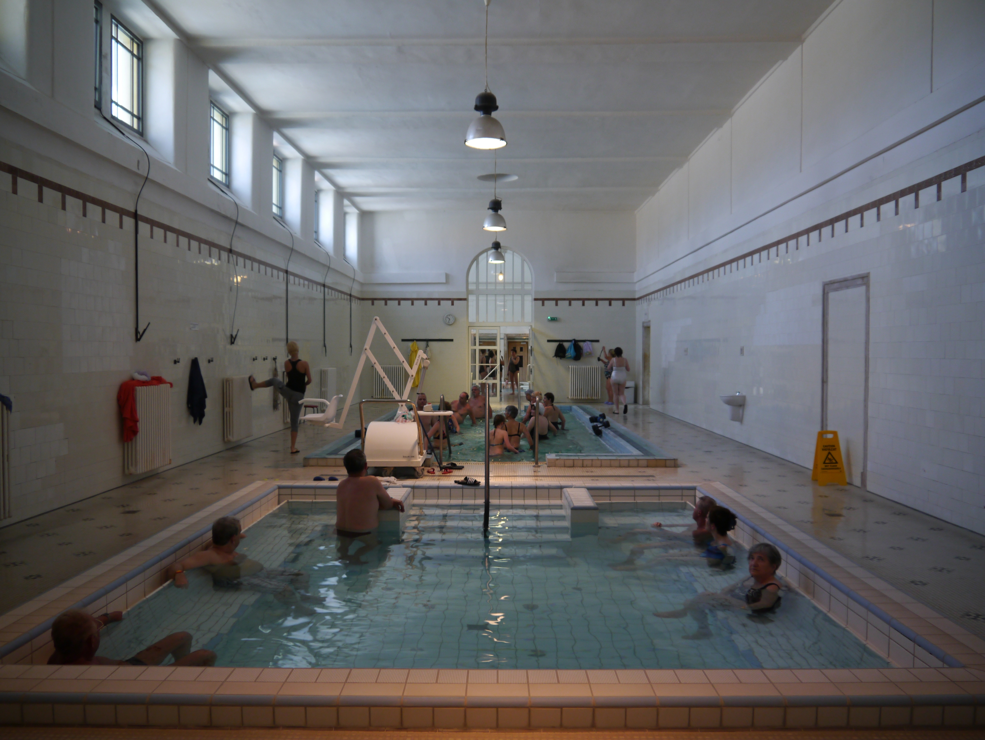 Therapy pool of the Széchenyi Bath, Budapest, Northern Hungary